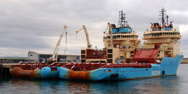 Anchor Handling Tugs at Scrabster A pair of Anchor Handlers/Supply Tugs, the Maersk Detector and the Maersk Assister, dwarfing the new ferry terminal at Scrabster. These giants are used for many heavyweight tasks such as repositioning oil rigs. They boast 18,280 BHP and 23,500 BHP respectively.